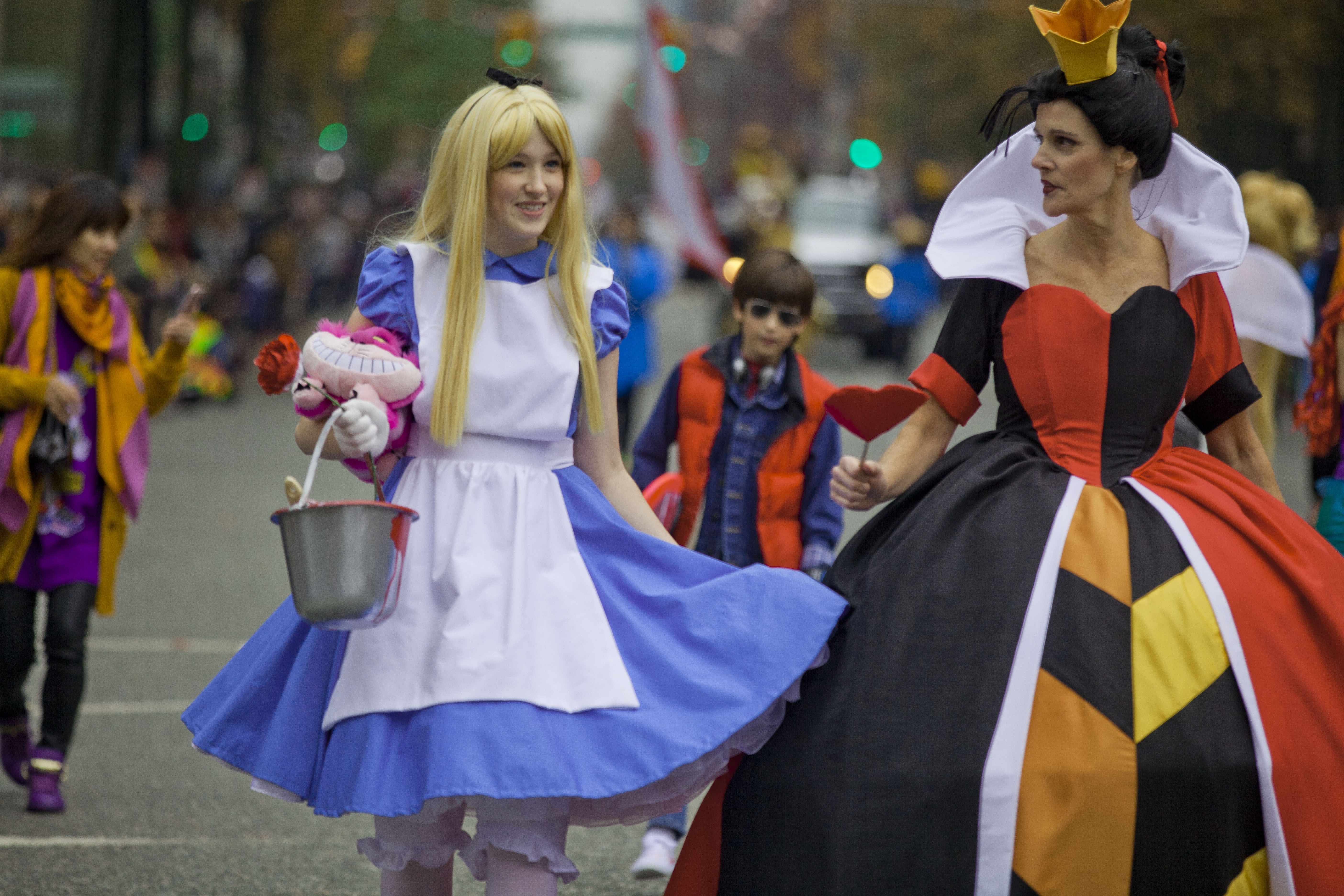 Halloween Parade Halloween